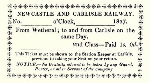 Paper tickets as issued by the Newcastle and Carlisle Railway in 1837.